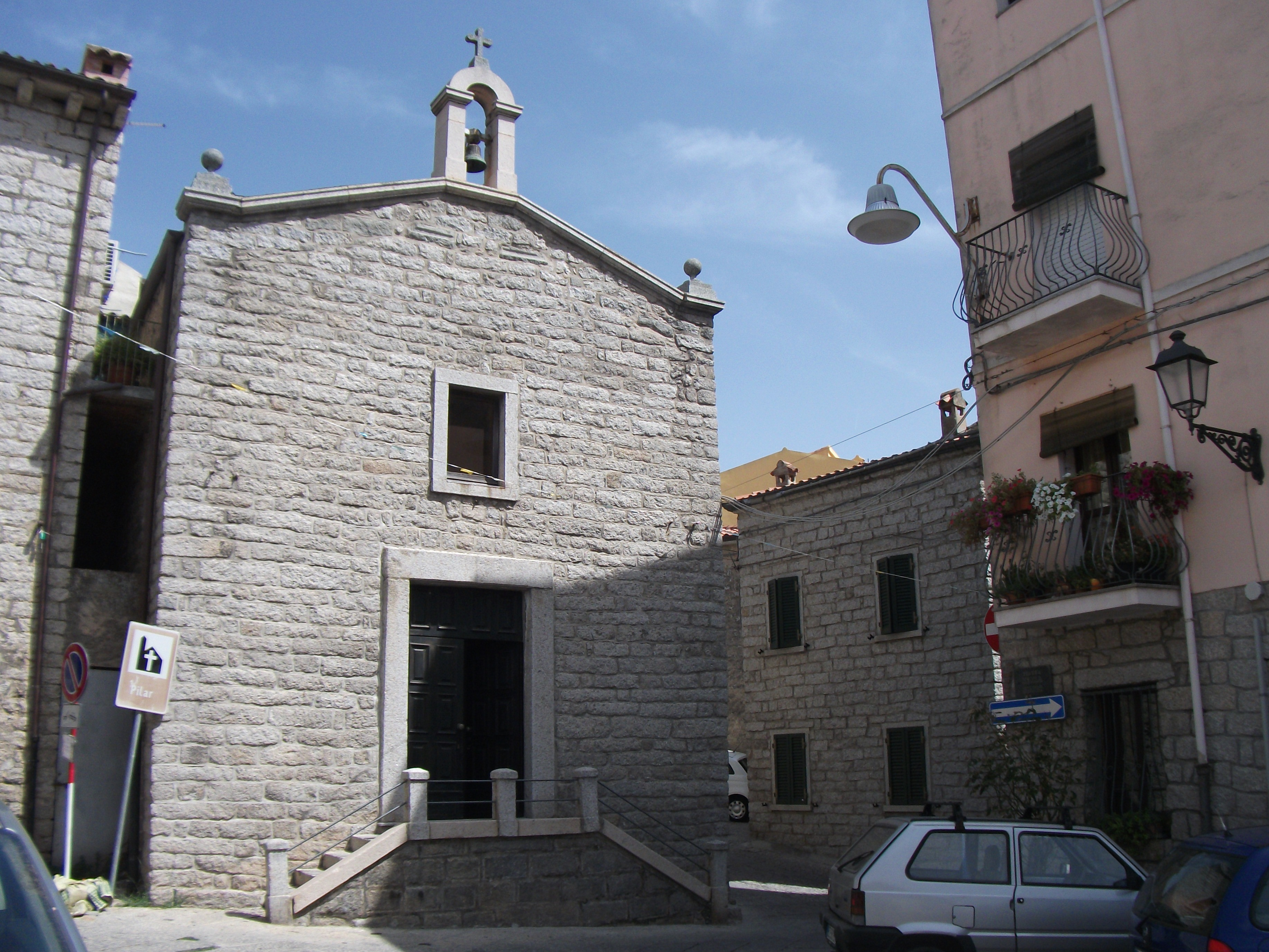 Tempio Pausania, chirch of Our Lady of Pilar